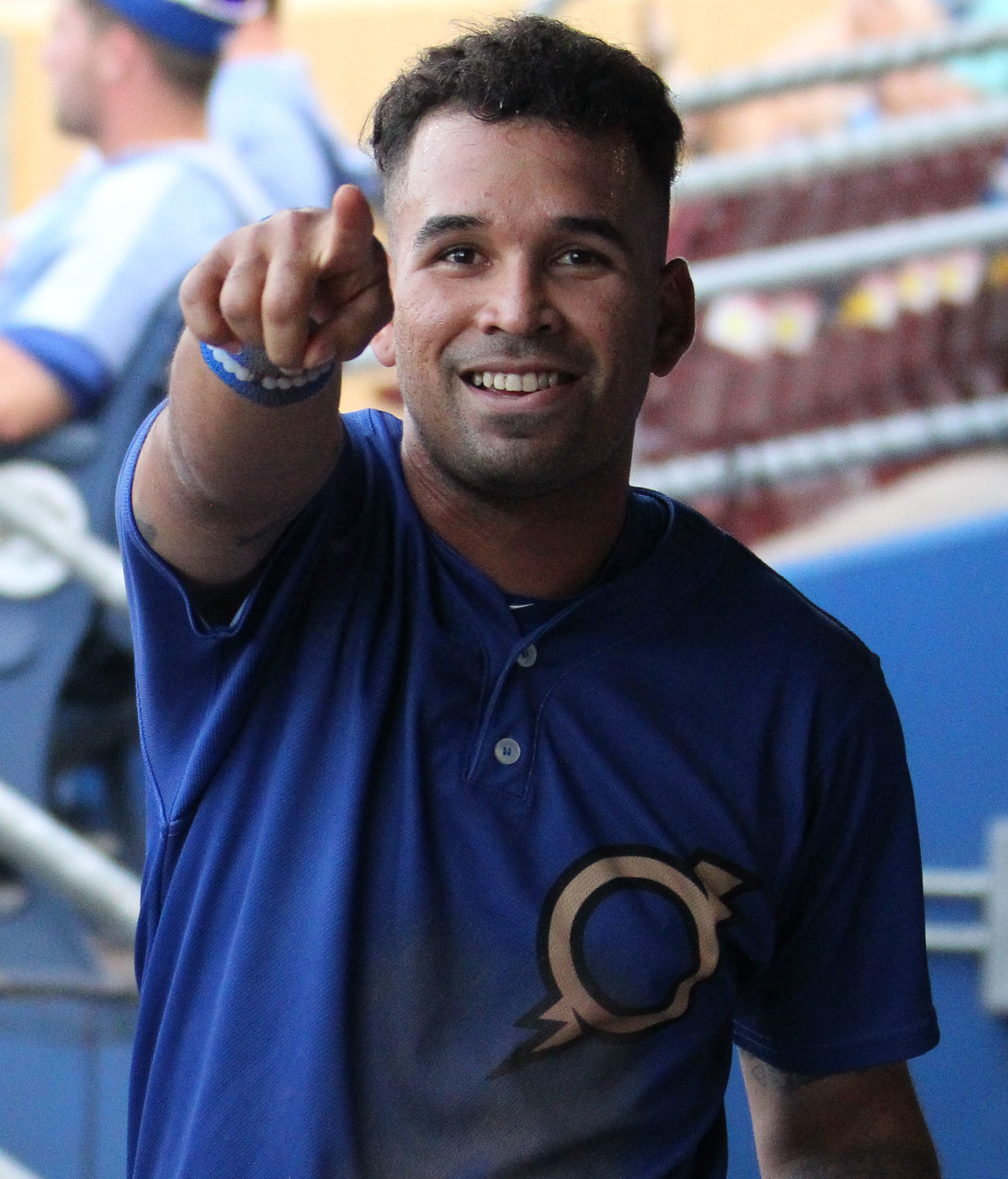 Humberto Arteaga with the Omaha Storm Chasers in the dugout at Werner Park in Nebraska during a 2019 game